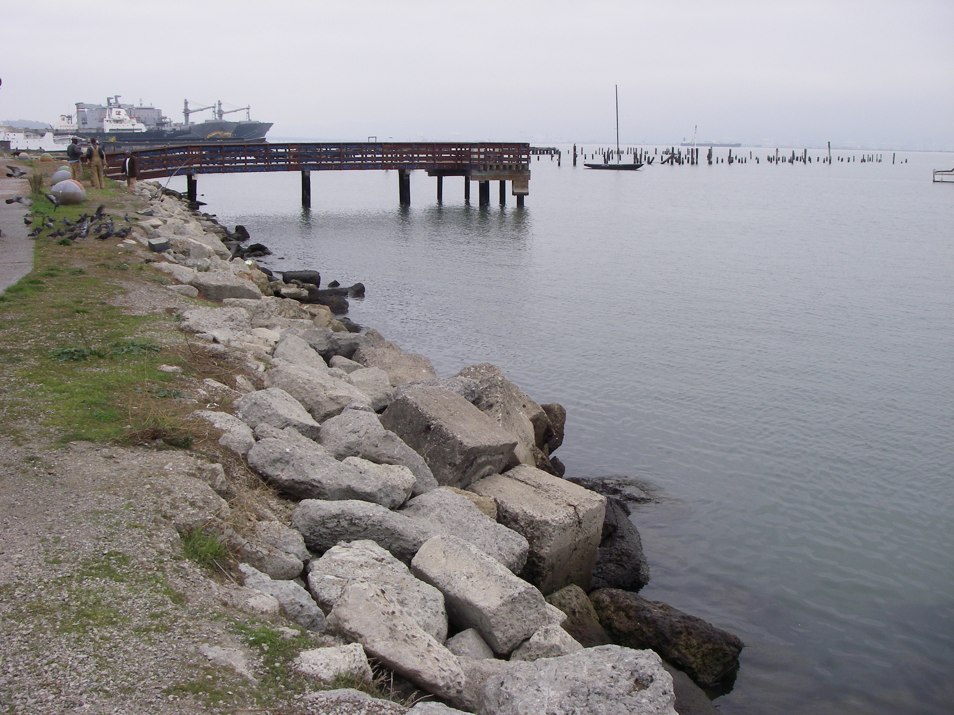 Rip-rapped shoreline at Agua Vista park, San Francisco.